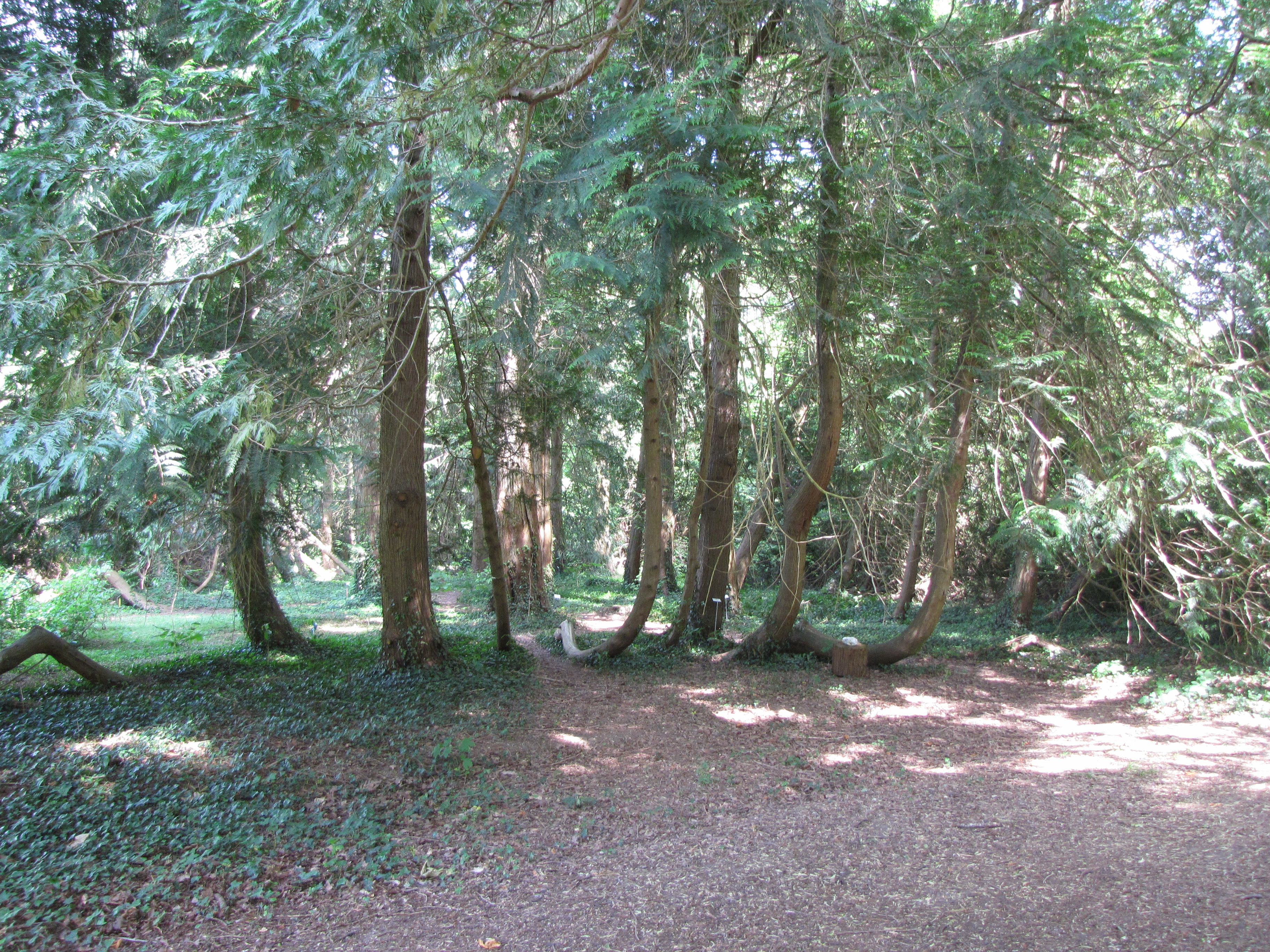 Arboretum National des Barres, Nogent-sur-Vernisson, Loiret, France. The "80-trunks thuja".